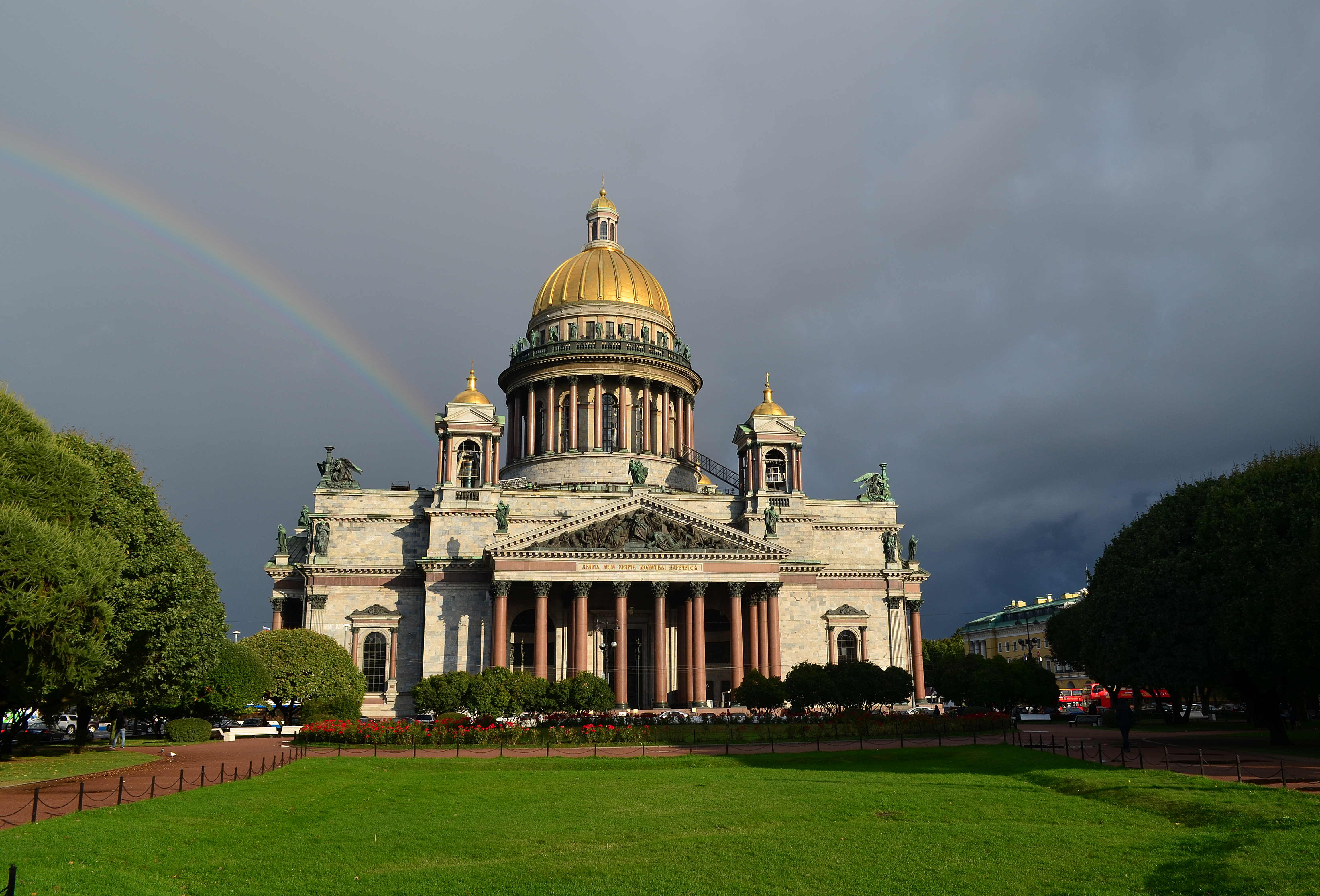 Saint Petersburg.Saint Isaac's Cathedral - Southern Facade